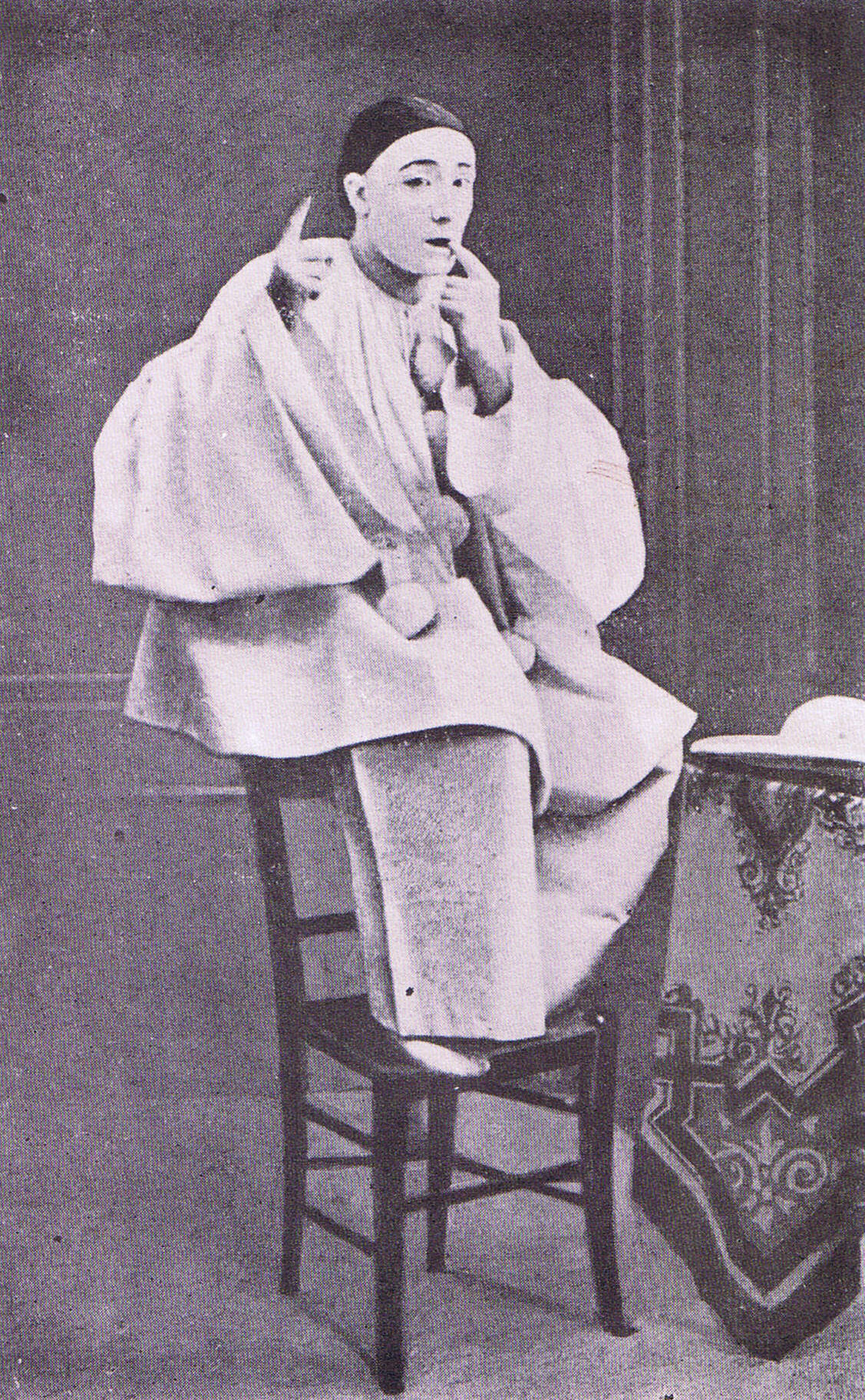 Photo of mime Louis Rouffe in book by Séverin: L'Homme Blanc, Paris 1929. This non-U.S. work was published 1923 or later, but is in the public domain in the United States because it was simultaneously published (within 30 days) in the U.S. and in its source country and is in the public domain in the U.S. as a U.S. work (no copyright registered, or not renewed). For background information, see the explanations on Non-U.S. copyrights.